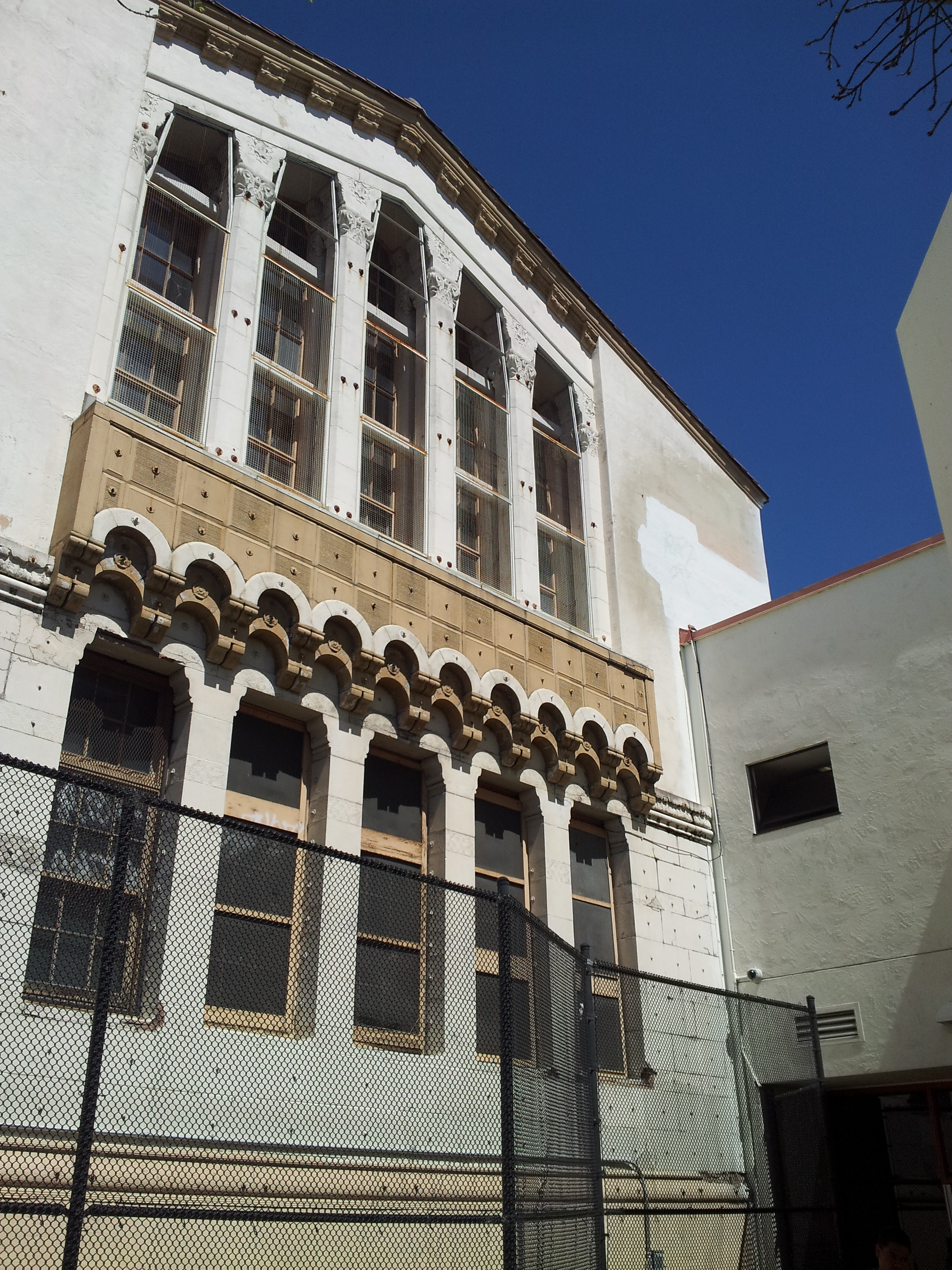 Exterior view of Oakland's Fremont High School's Library.